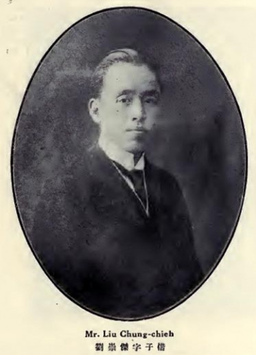 Liu Chongjie (1880-?)